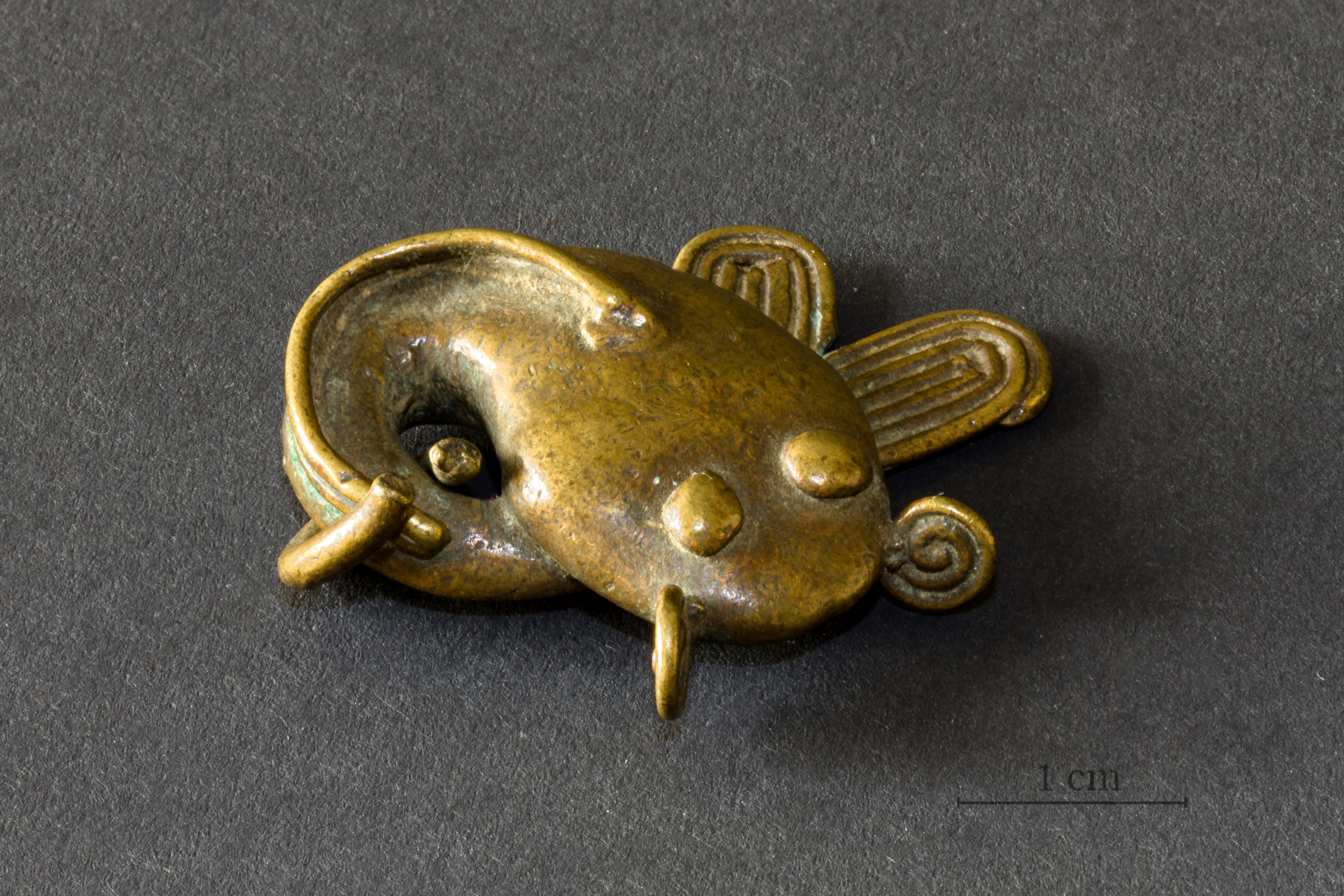 This fish shaped peson is a multiple of the weight of the seed of Abrus precatorius (0.14 to 0.19 g) which was used as reference for any weighing. Gold was extremely important in the economic and political life of the Akan kingdoms of southern Ghana and Côte d'Ivoire. Until the mid-nineteenth century, gold dust was the primary form of currency in the region. In order to measure precise amounts of gold, an elaborate system of weights, usually made of cast brass, developed by the seventeenth century. Beyond the usual function, the weigh of gold, often refer to political power, reproducing in miniature regalia, and some virtues such as wisdom proverbs generally comment. Today, the national currency has replaced the precious metal and the system weight is no longer relevant since the early twentieth century.